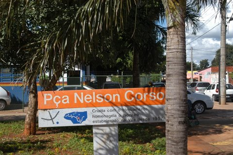 This is Nelson Corso Square in Vila Planalto, a community inside the capital that was reconized as World patrimonium by Unesco in 2001. Praça Nelson Corso, na Vila Planalto (Brasília, DF)